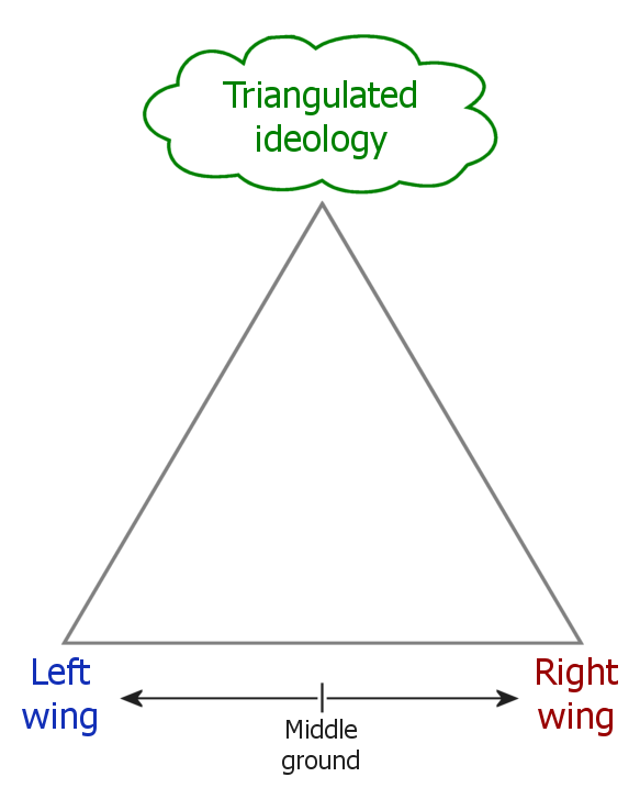 A conceptual diagram illustrating political triangulation. The candidate presents their own political ideology as being in the more moderate middle ground 'between' that of their more extreme left and right-wing opponents. Such an ideology is then promoted as rising 'above' (transcending) typical left versus right political arguments. The resulting triangle shape gives this term its name.